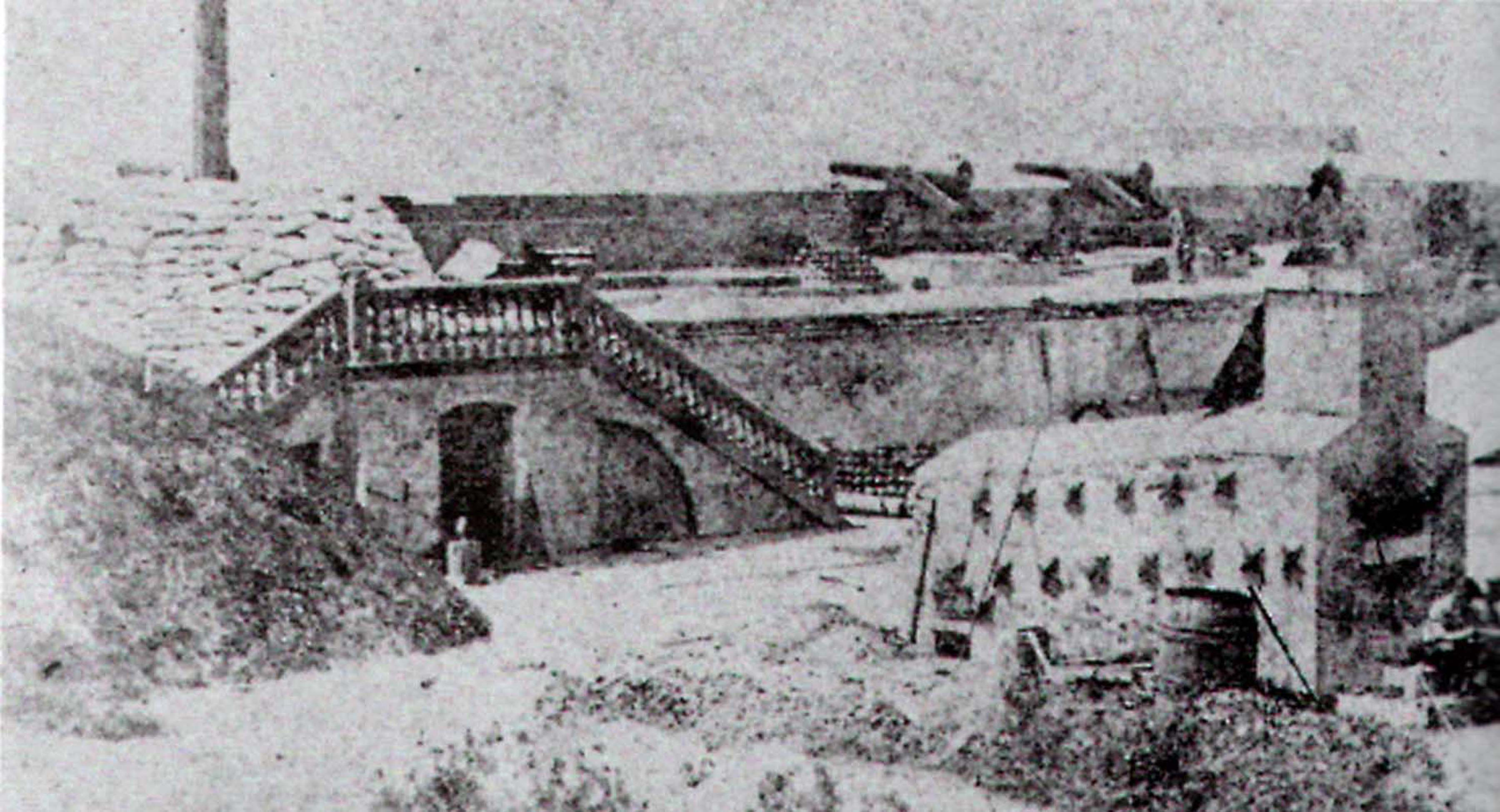 Fort Moultrie (South Carolina)